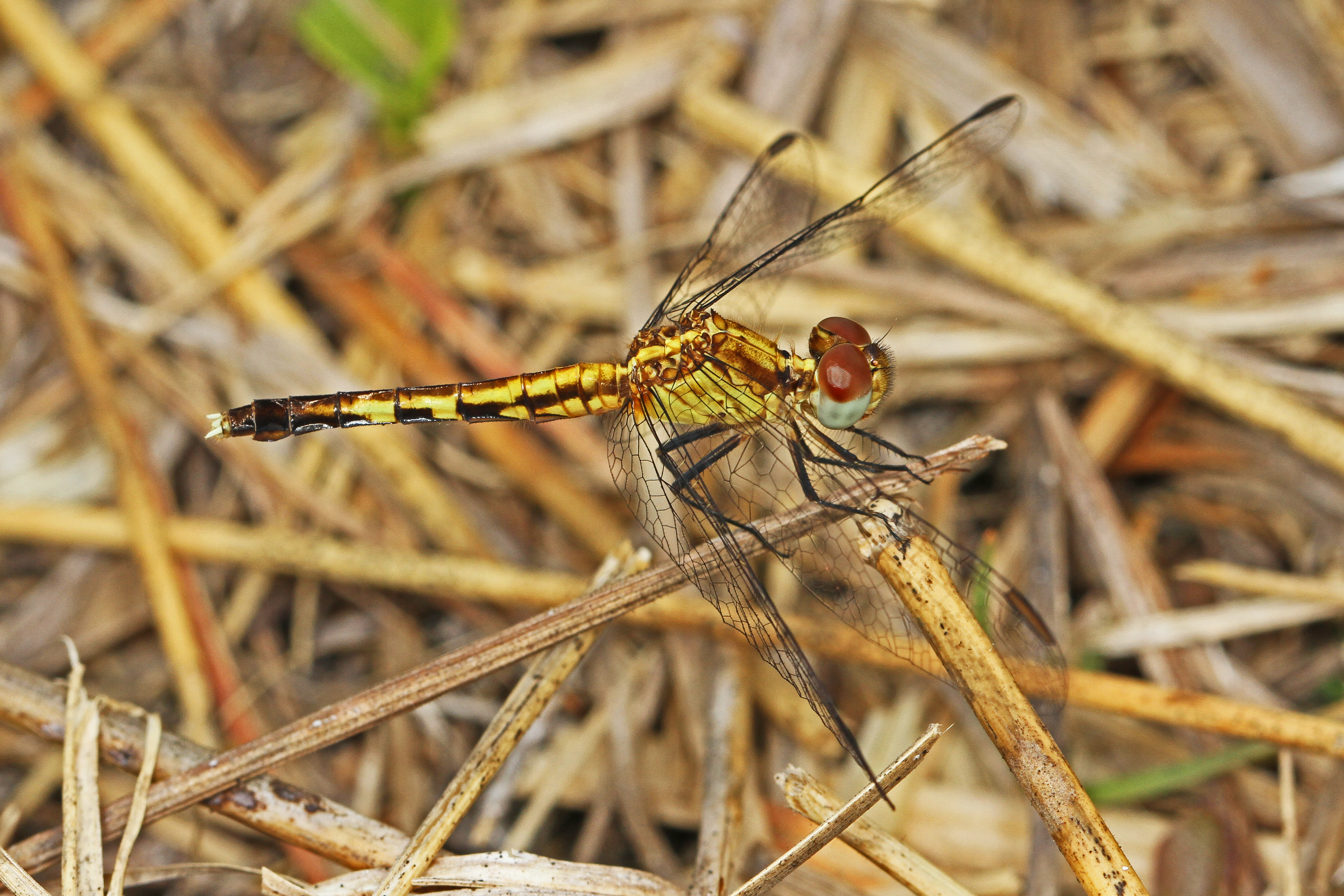 Little Blue Dragonlet (female) - Erythrodiplax minuscula, Okaloacoochee Slough State Forest, Felda, Florida